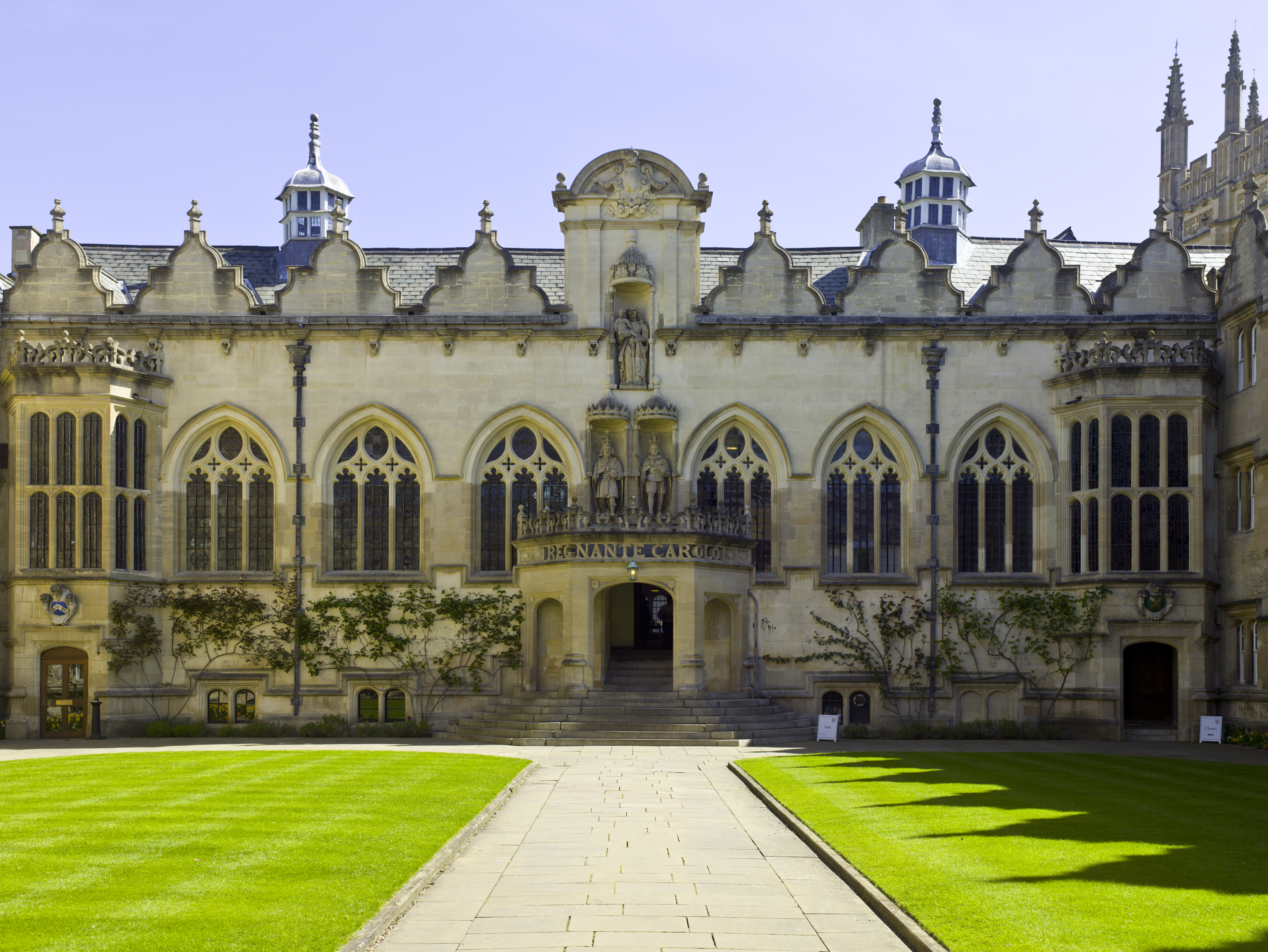 Oriel College (Oxford University) founded in 1324. First Quad (View of the Hall).